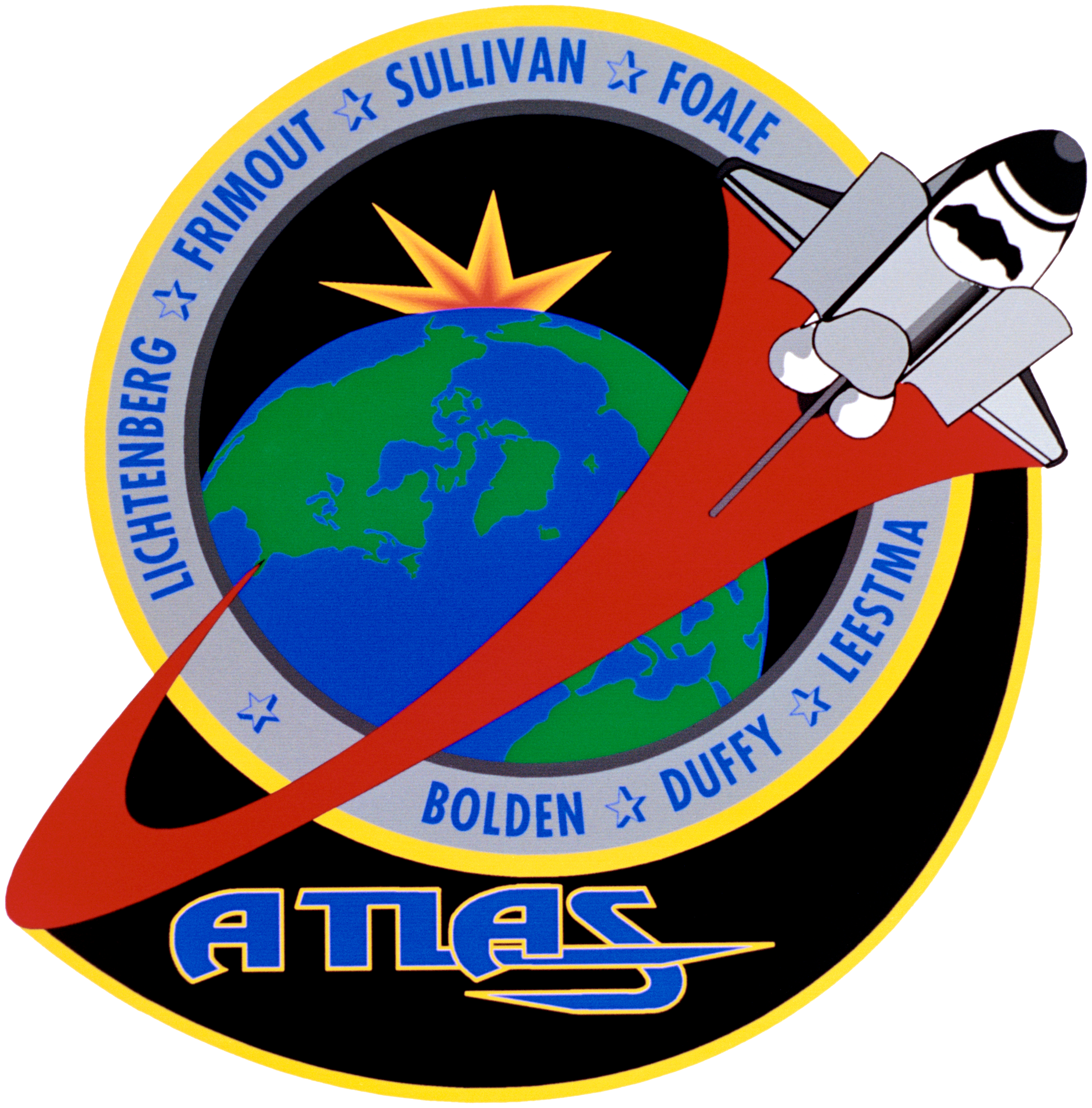 STS-45 Mission Insignia Designed by the crewmembers, the STS-45 patch depicts the Space Shuttle launching from the Kennedy Space Center into a high inclination orbit. From this vantage point, the Atmospheric Laboratory for Applications and Science (ATLAS) payload can view Earth, the sun, and their dynamic interactions against the background of space. Earth is prominently displayed and is the focus of the mission's space plasma physics and Earth sciences observations. The colors of the setting sun, measured by sensitive instruments, provide detailed information about ozone, carbon dioxide and other gases which determine Earth's climate and environment. Encircling the scene are the names of the flight crewmembers. The additional star in the ring is to recognize Charles R. Chappell and Michael Lampton, alternate payload specialists, and the entire ATLAS-1 team for its dedication and support of this Mission to Planet Earth.